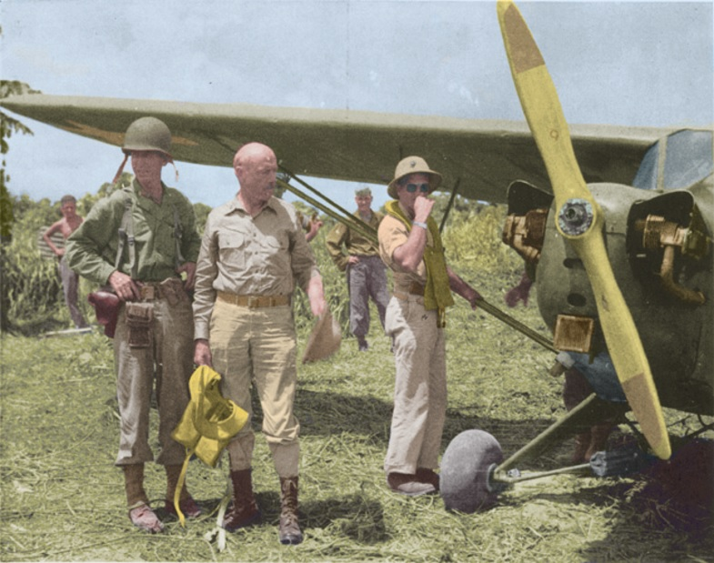 General William H. Rupertus in Talasea airstrip.